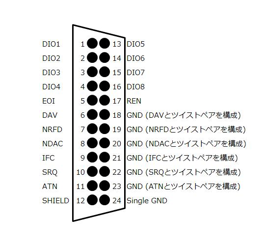 IEEE_488_Connector